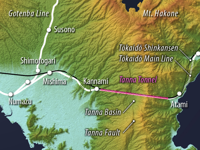 Tanna Tunnel in Shizuika Prefecture, Japan.